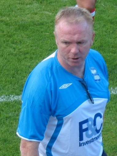 Birmingham City F.C. and former Scotland national football team manager Alex McLeish at the pre-season friendly against VfB Stuttgart in Zell am See, Austria